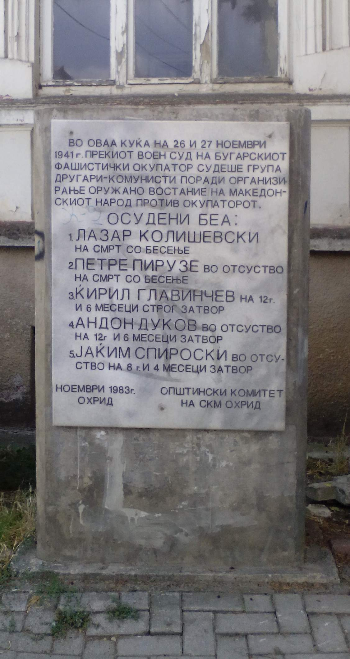 Monument in front of USM in Ohrid, Macedonia.